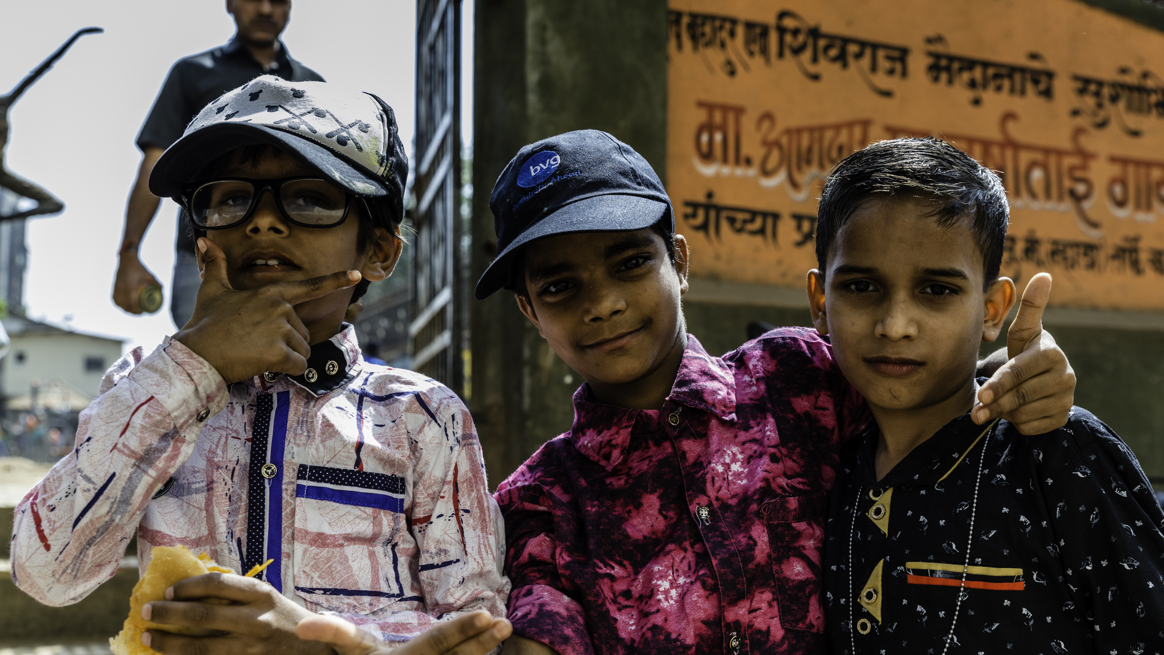 Young as they are they already face life's many diffulties. If they do not do well in school they are trapped in poverty. These boys are posing in front of a small school inside the Dharavi slum.